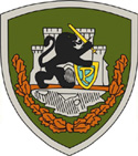 estonian military insignia